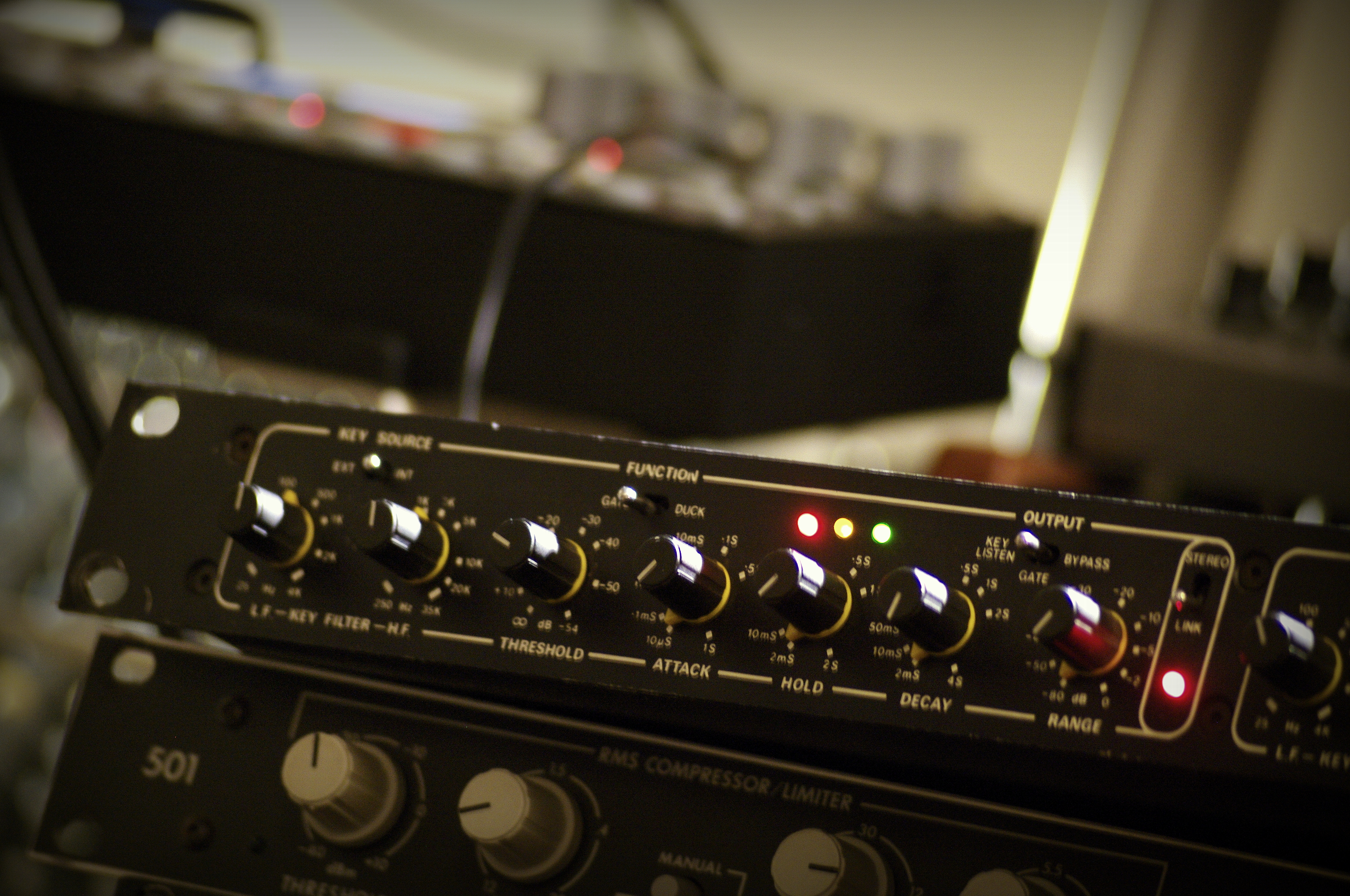 References DS201 - Dual Noise Gate. Drawmer Electronics Ltd. "The DS201 is a sophisticated dual channel noise gate incorporating a number of features pioneered by Drawmer, which are invaluable to the sound engineer, and not found on conventional noise gates. ..."